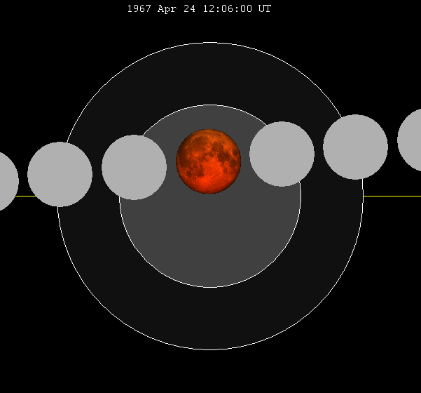 April 1967 lunar eclipse chart of moon's path through the earth's shadow. thumb